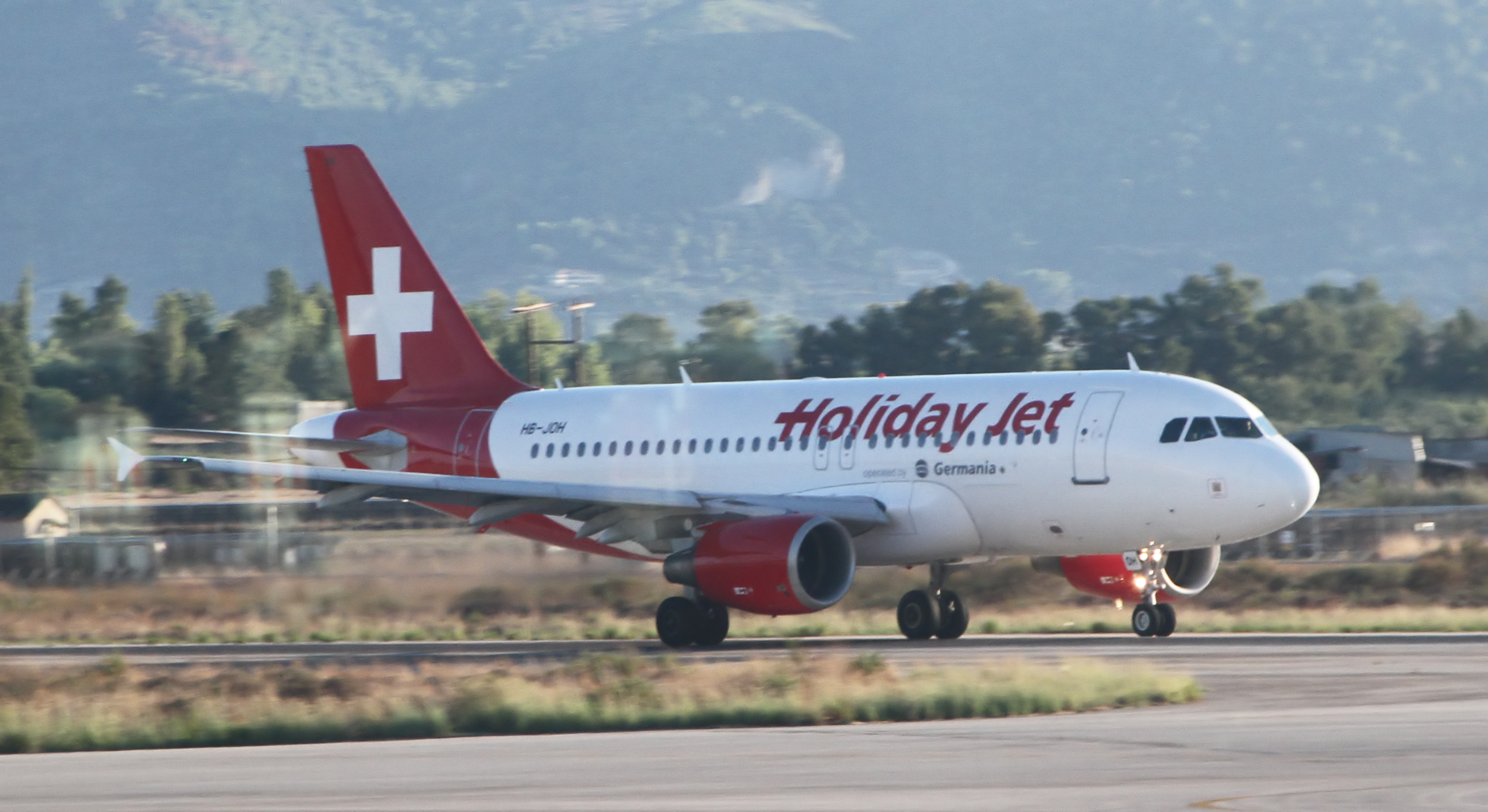 HB-JOH Germania Flug Airbus A319-112